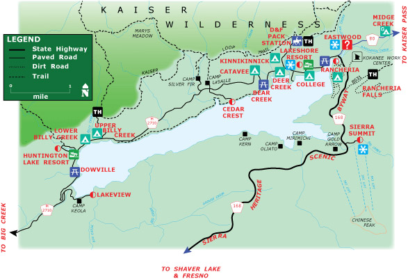 Map of Huntington Lake, Sierra Nevada, California